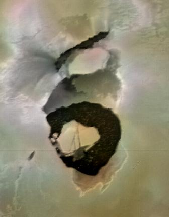 Loki Patera on Io